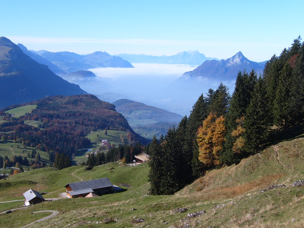 Sea of fog over Central Switzerland. View from hiking trail between Ibergeregg and Spirstock, Canton of Schwyz, Switzerland.